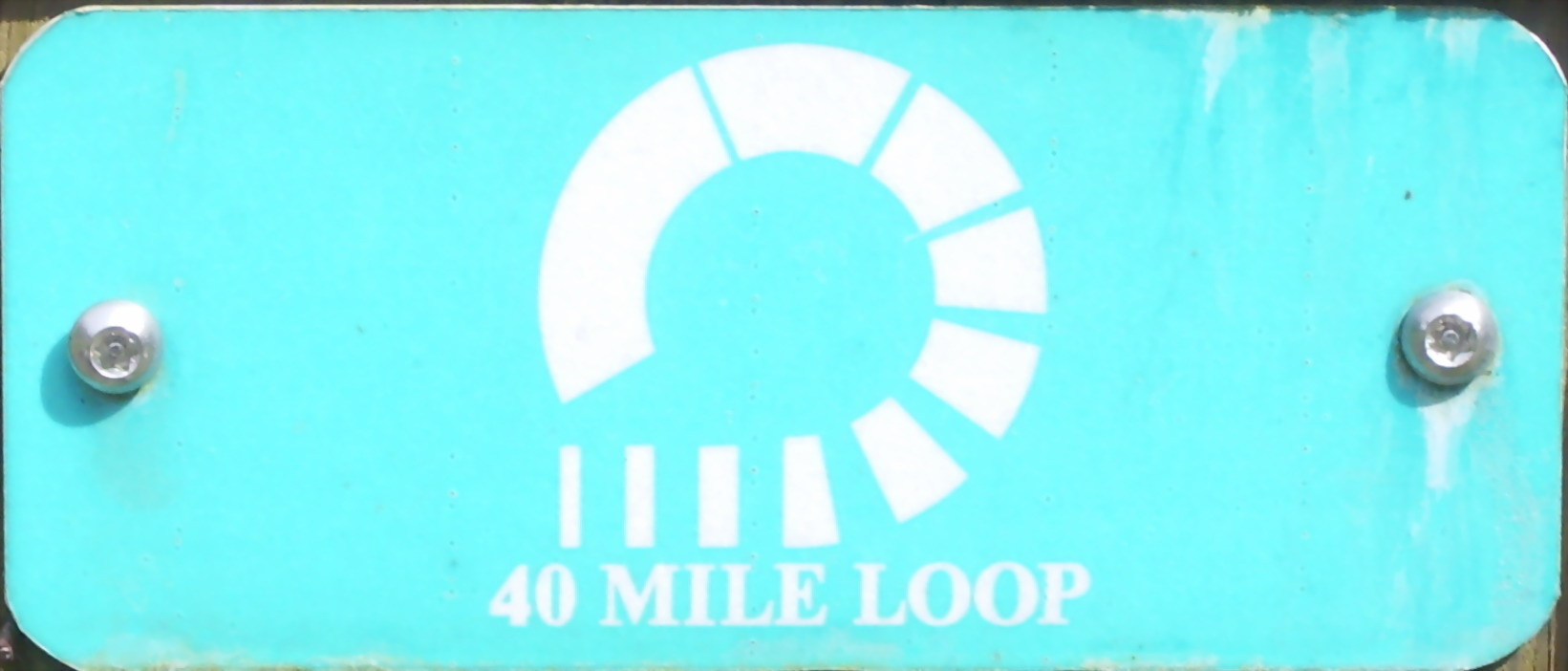 photo of path marker graphic identification for 40 Mile Loop